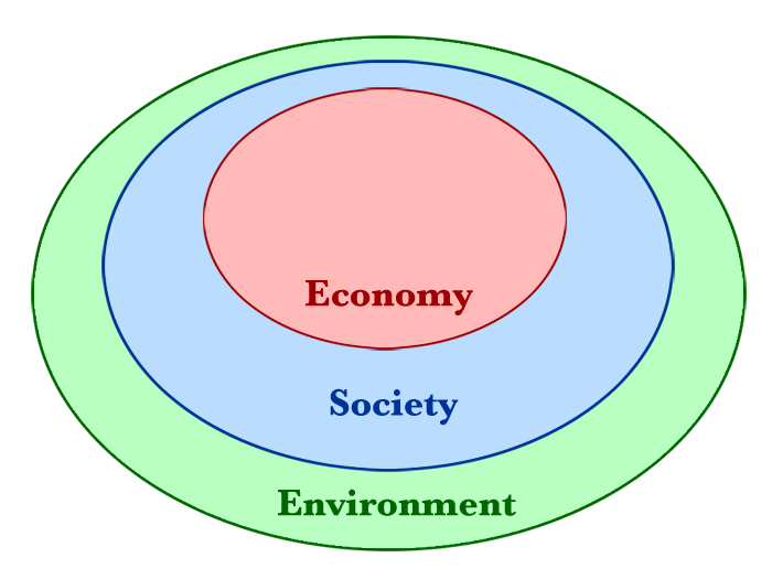 Created in Photoshop, based on "Sustainable development" diagram at Cornell Sustainability Campus